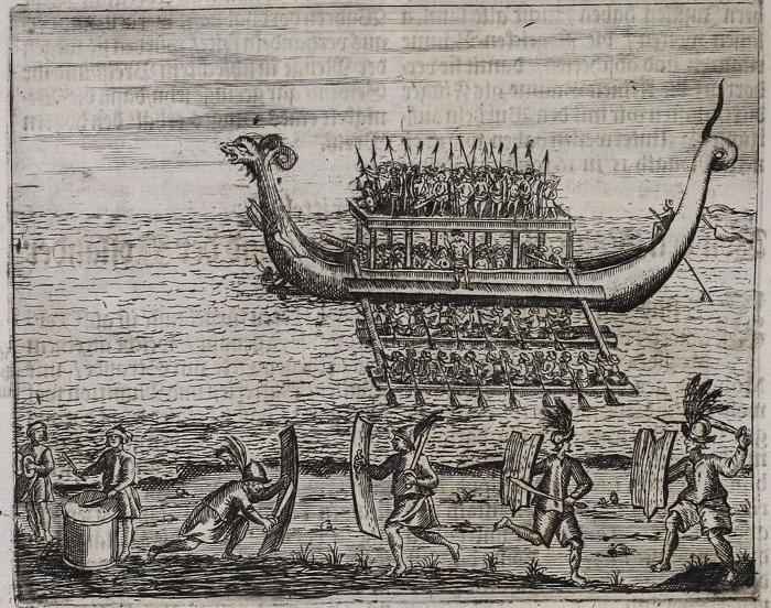 Einheimisches Schiff auf den Molukken